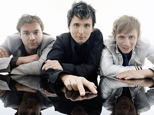 British band Muse (band).